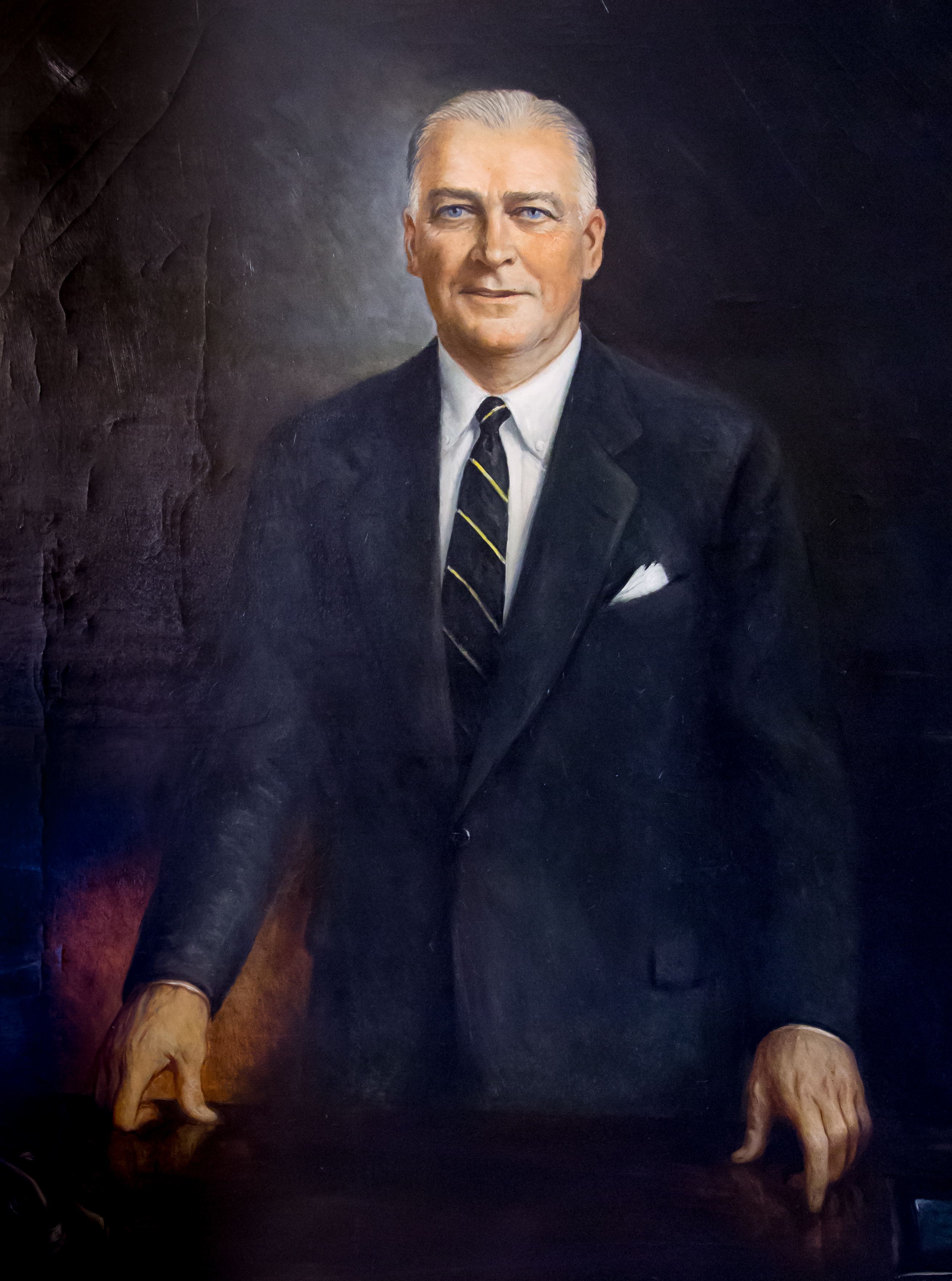 RI Governor Dennis Joseph Roberts. Official portrait in the Rhode Island State House.